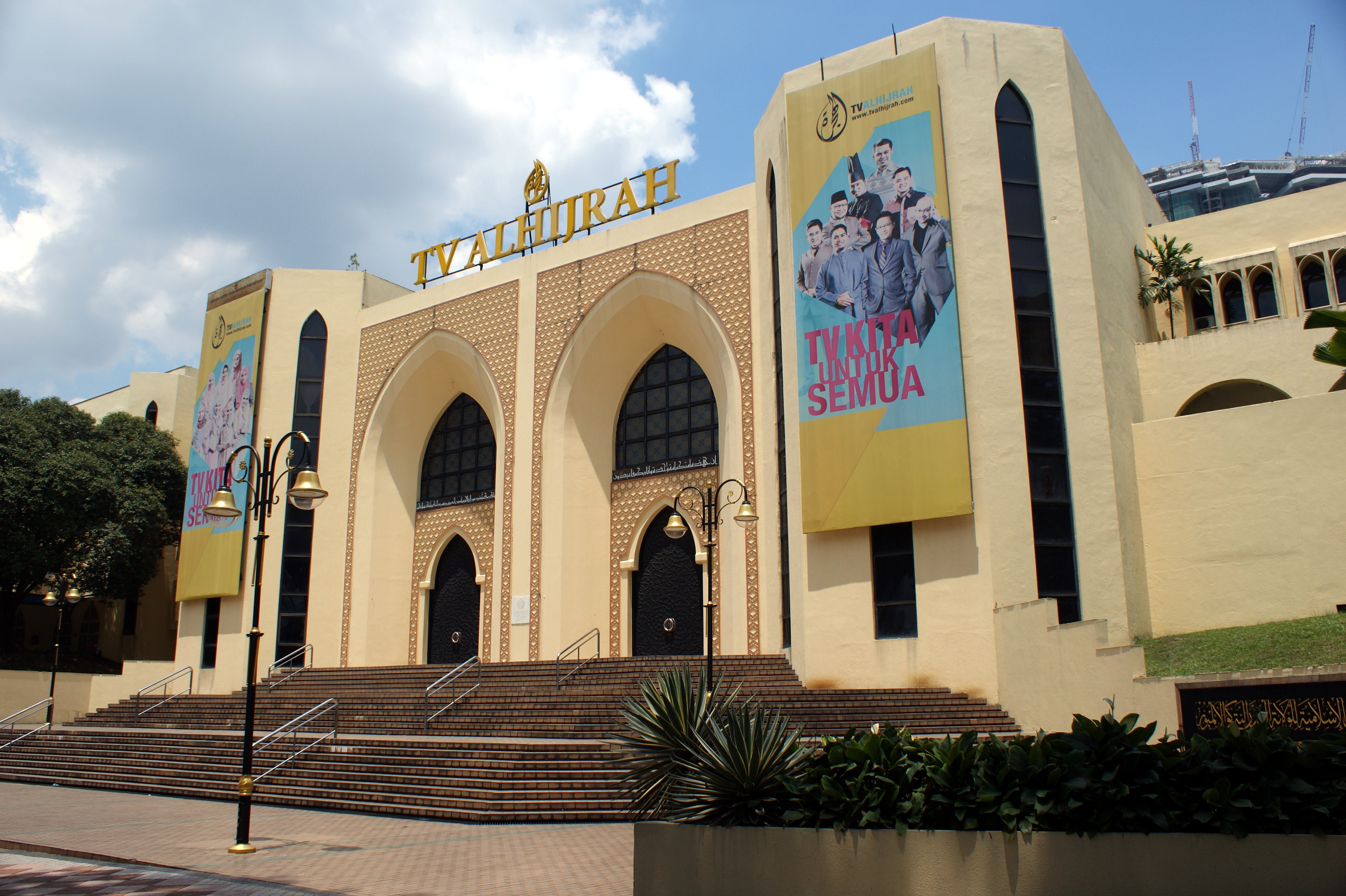 TV Alhijrah Main Building in Kuala Lumpur